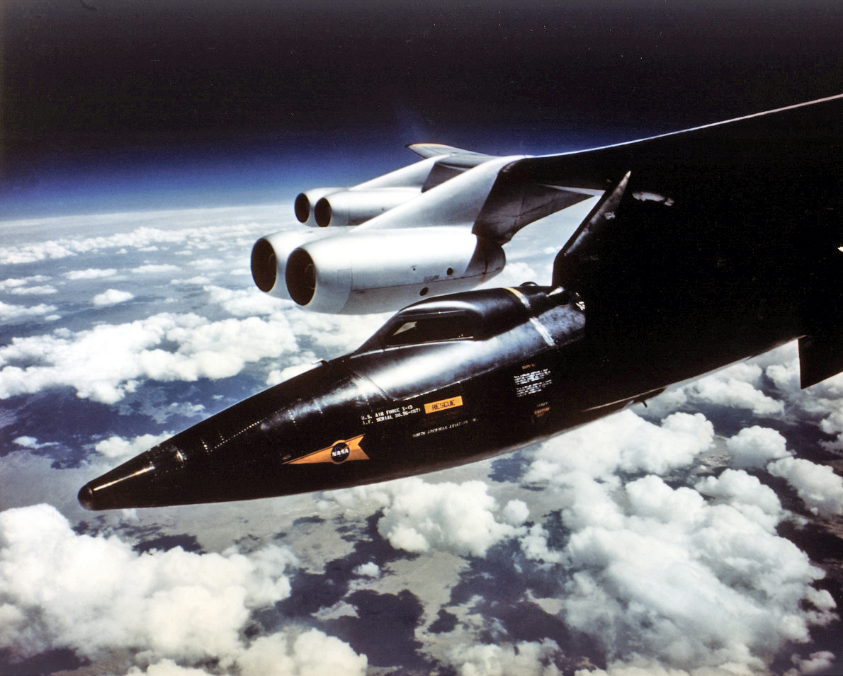 North American X-15 rocket plane on Boeing B-52 Mothership wing pylon.